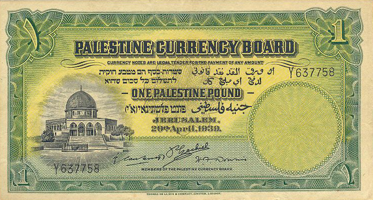 Obverseside of a 1 Palestine Pound bill, paper.